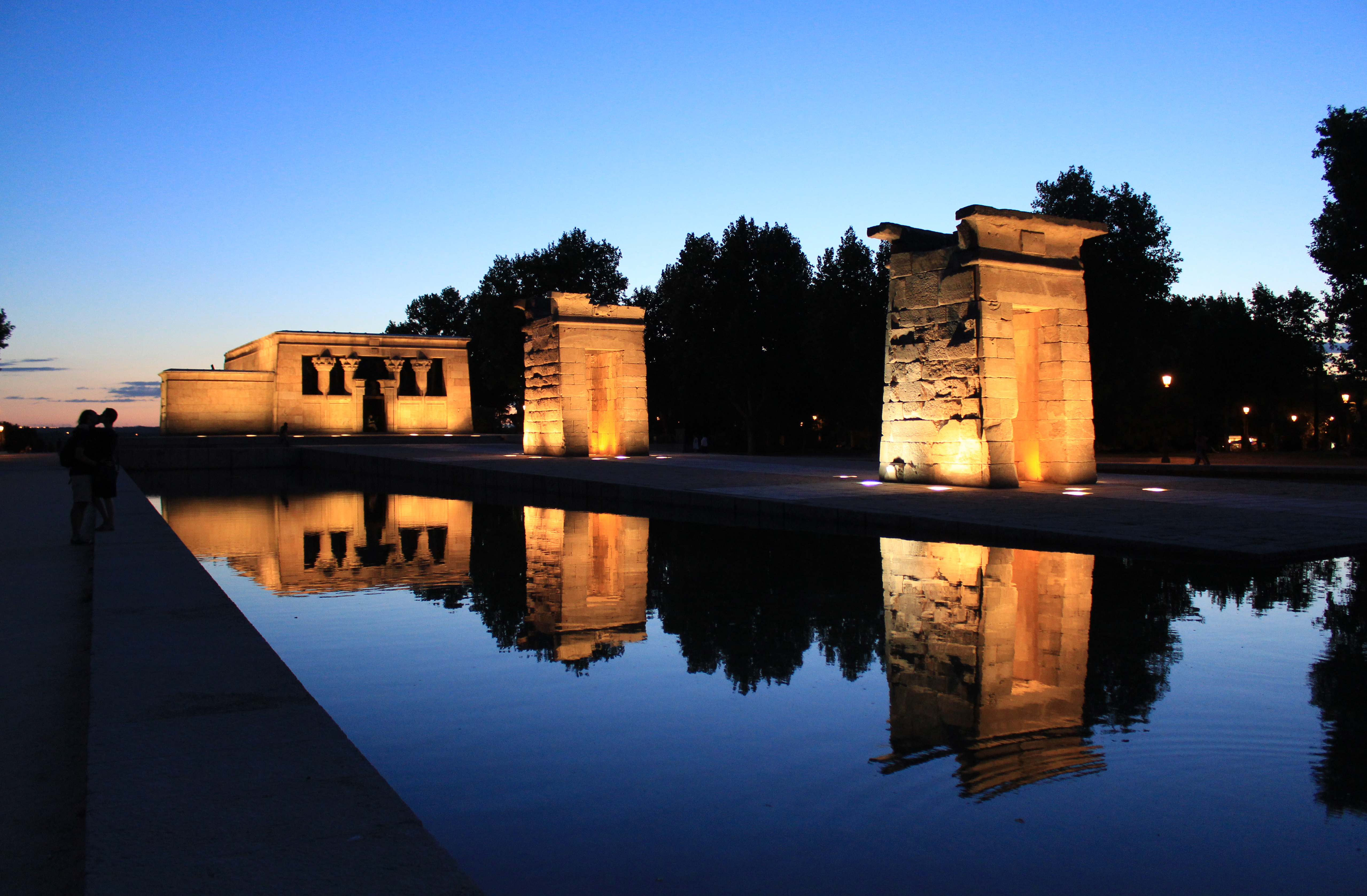 An ancient Egyptian temple - the Temple of Debod, which was donated by Egyptian authority to Spain in 1968 for the help in saving the temples of Abu Simbel from flood caused by construction of the Great Dam of Aswan.(Parque del Oeste, Madrid, Spain)